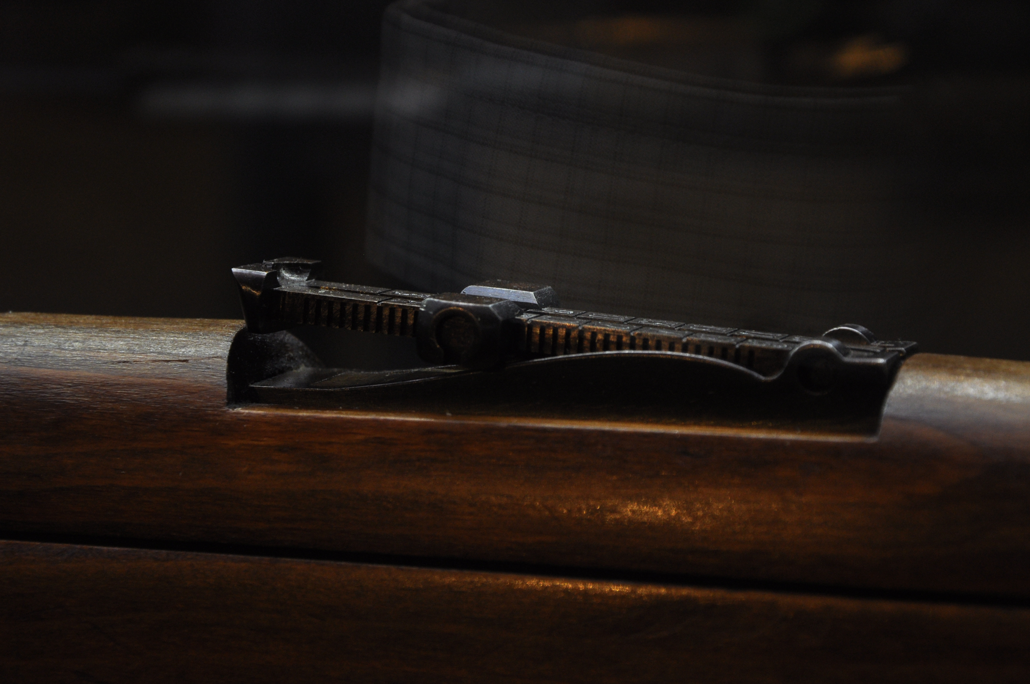 Exhibits at the Warsaw Uprising Museum